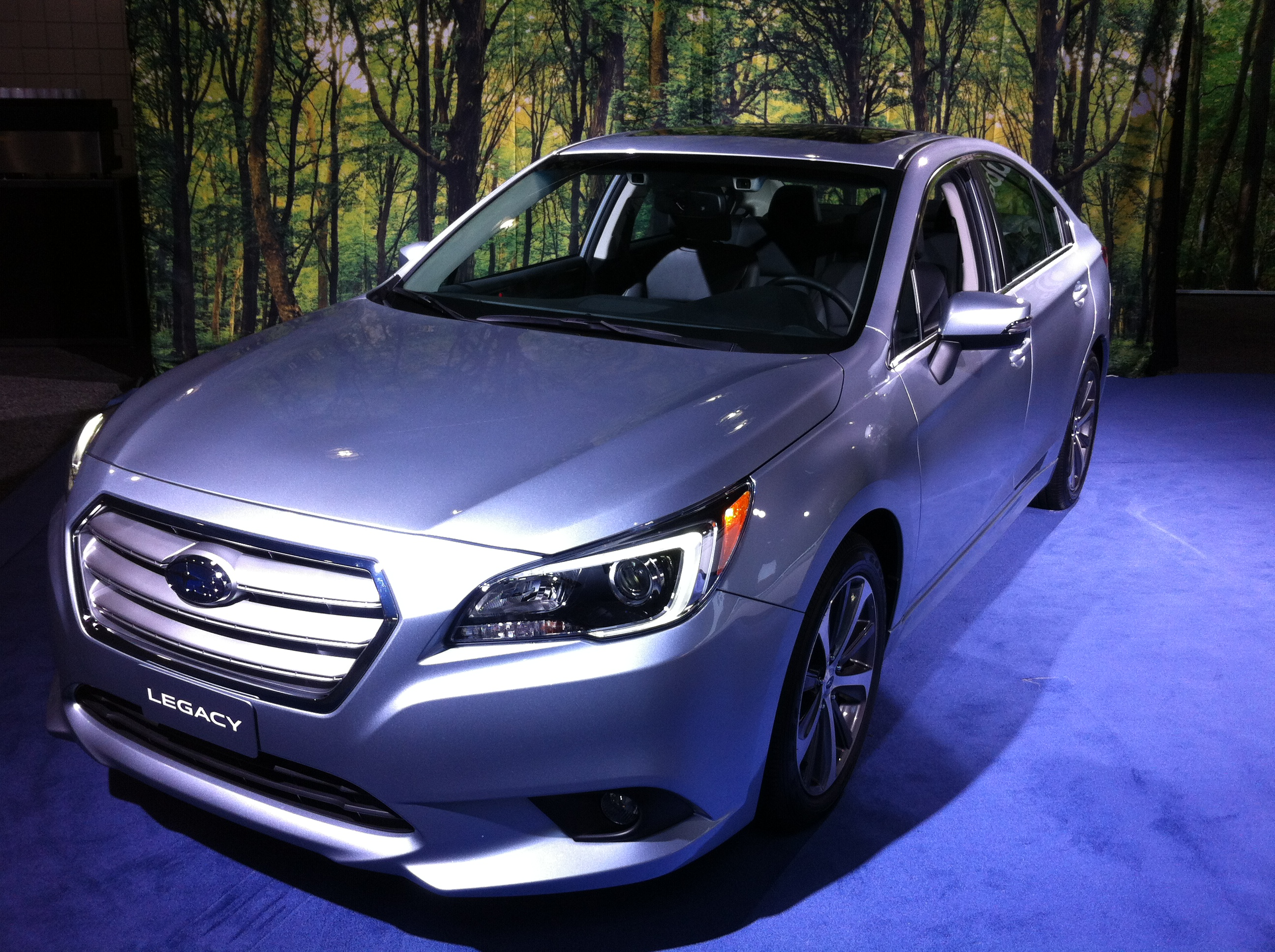 New York Auto Show - Subaru Legacy